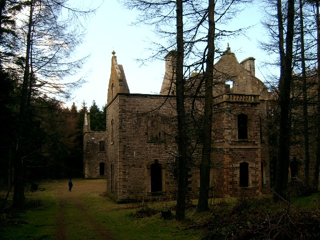 Carmichael House. Built by the 3rd Earl of Hyndford in 1734. There are plans to restore it.